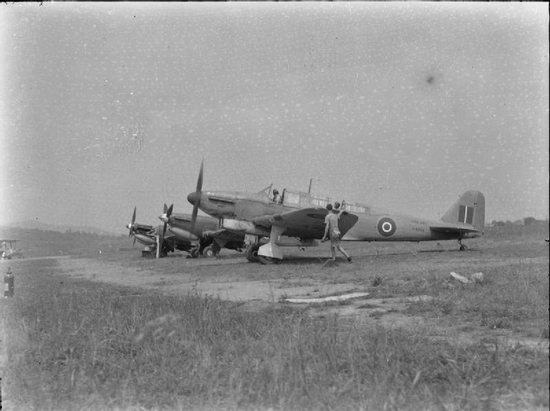 The Royal Navy during the Second World War A Fairey Fulmar aircraft of the Fleet Air Arm about to take off from HMS SPURWING, a Royal Naval Air Station in Sierra Leone, on a coastal reconnaissance.